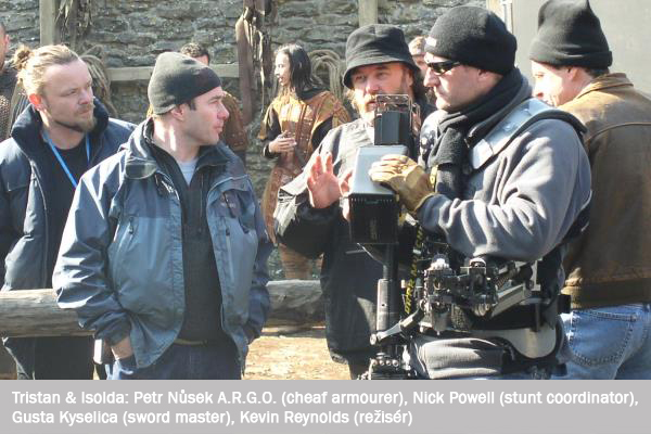 Petr Nůsek Personality rights warningAlthough this work is freely licensed or in the public domain, the person(s) shown may have rights that legally restrict certain re-uses unless those depicted consent to such uses. In these cases, a model release or other evidence of consent could protect you from infringement claims.